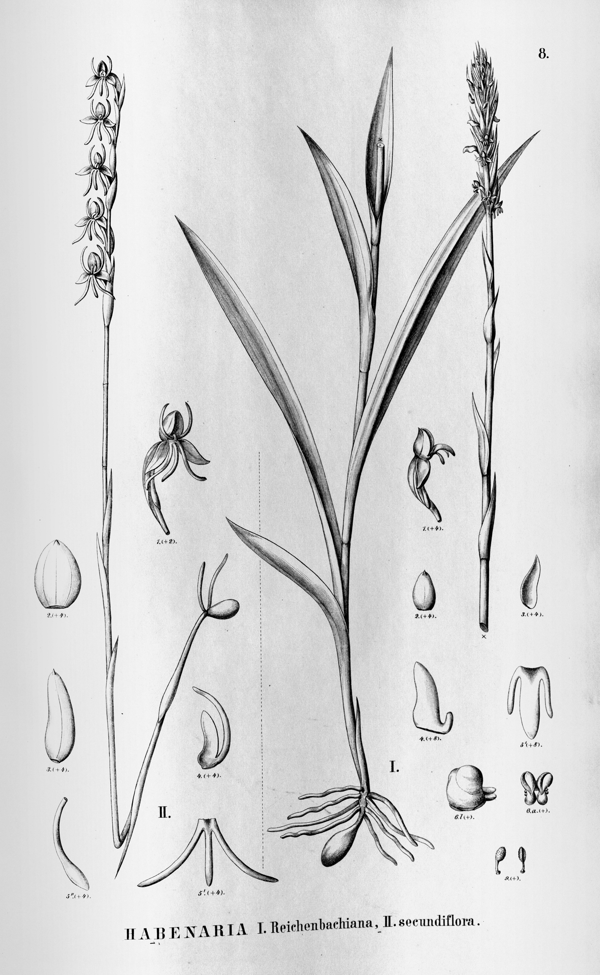 Illustration of : I. Habenaria parviflora (as syn. Habenaria reichenbachiana) II. Habenaria secundiflora